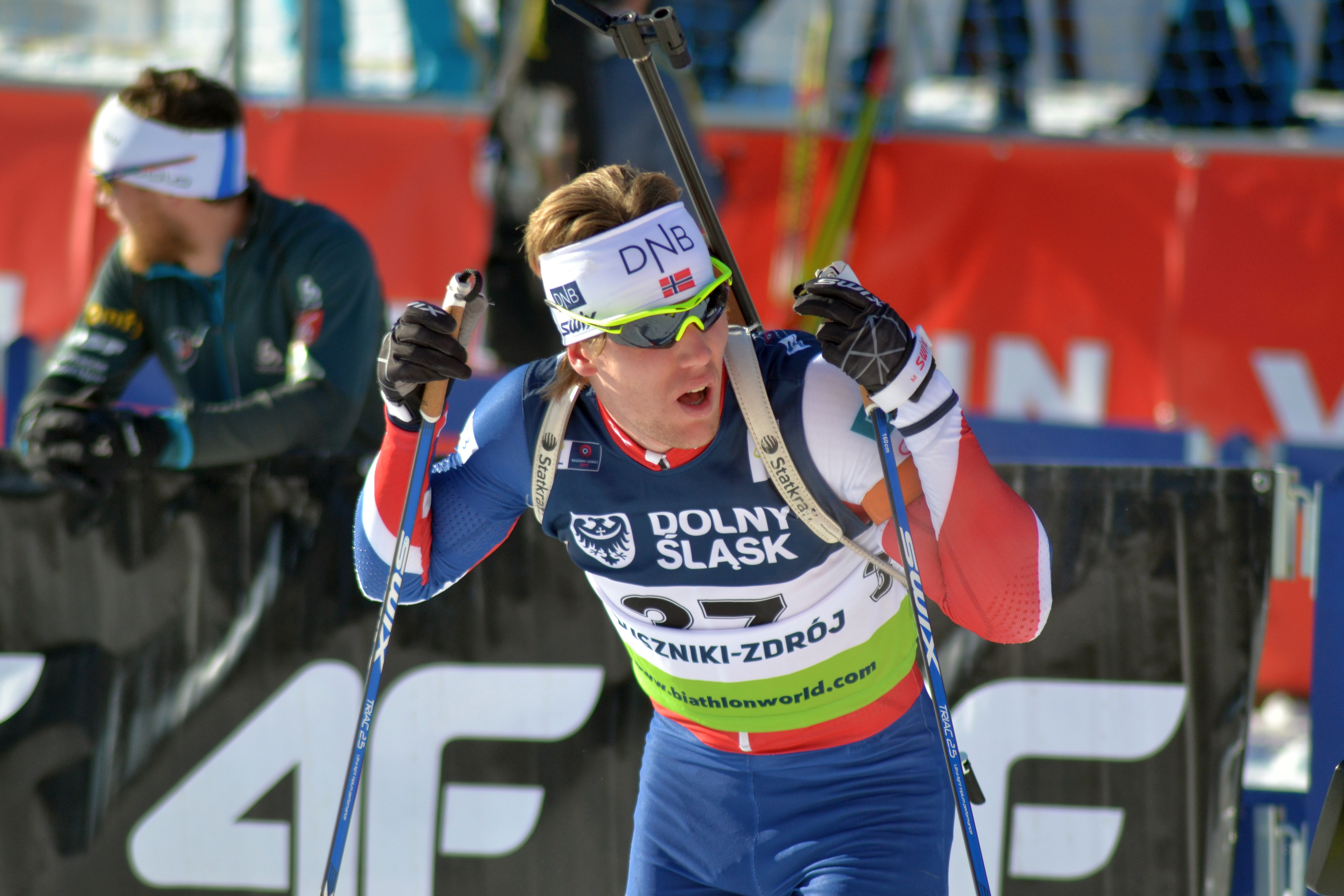 Open European Championships Biathlon 2017, Sprint Men's race, held on January 27th.